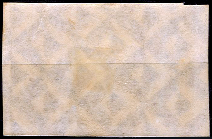 Stamp of Soviet Russia (RSFSR), "Proletarian Freed" ("Russia New Triumphant"), reverse side showing a watermark, 1921, 40 rubles. CPA #7; Scott #187. Watermark Mi. 6Yr, large clear triangles facing right. Four watermark positions are known: up and down (X), left and right (Y).